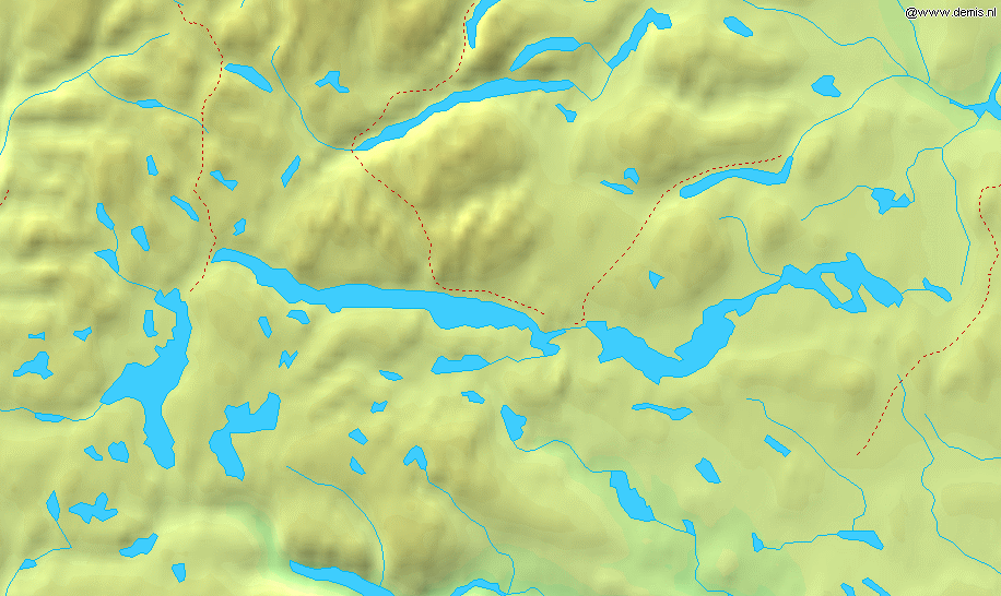 Bygdin, a lake in Norway. Bounding box West 8°, South 61.15°, East 9.4°, North 61.55°. Center at 61°21′00″N 8°42′00″E / 61.35000°N 8.70000°E.